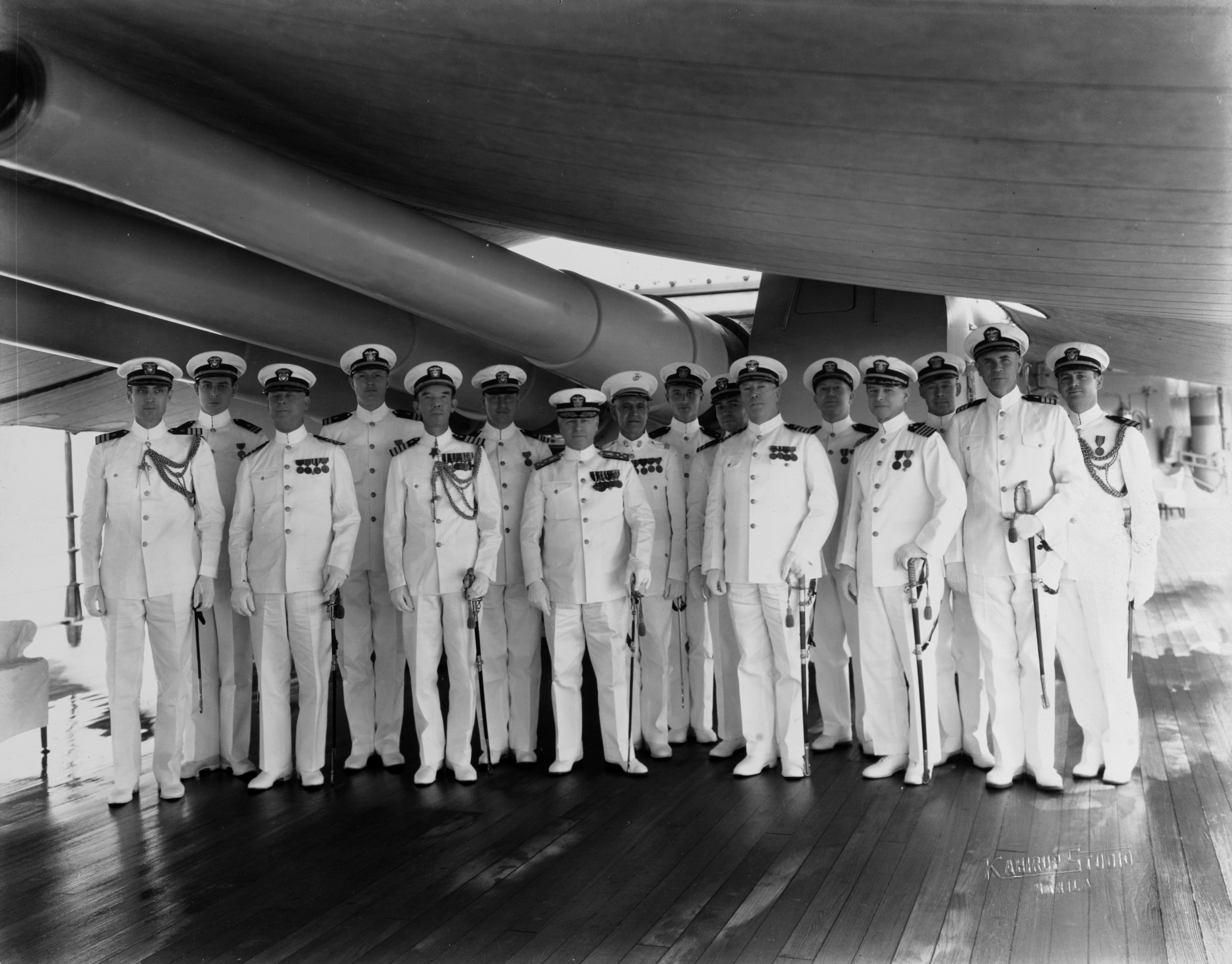 Admiral Frank Brooks Upham, U.S. Navy, Commander in Chief, U.S. Asiatic Fleet (front row, center) with his staff on board the Asiatic Fleet flagship, the heavy cruiser USS Augusta (CA-31), at Manila, Philippine Islands, circa January 1935.